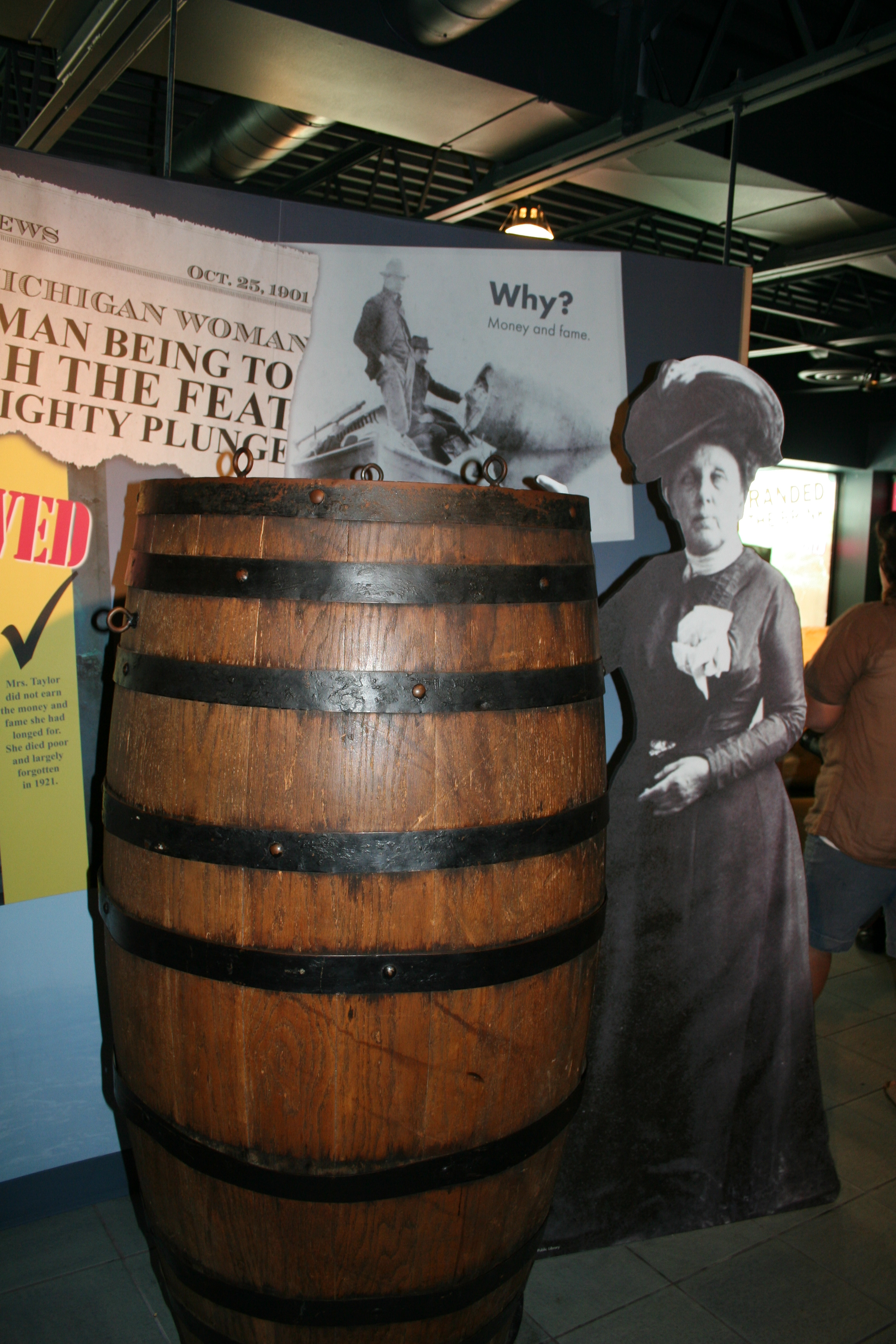 Annie's barrell IMax theater